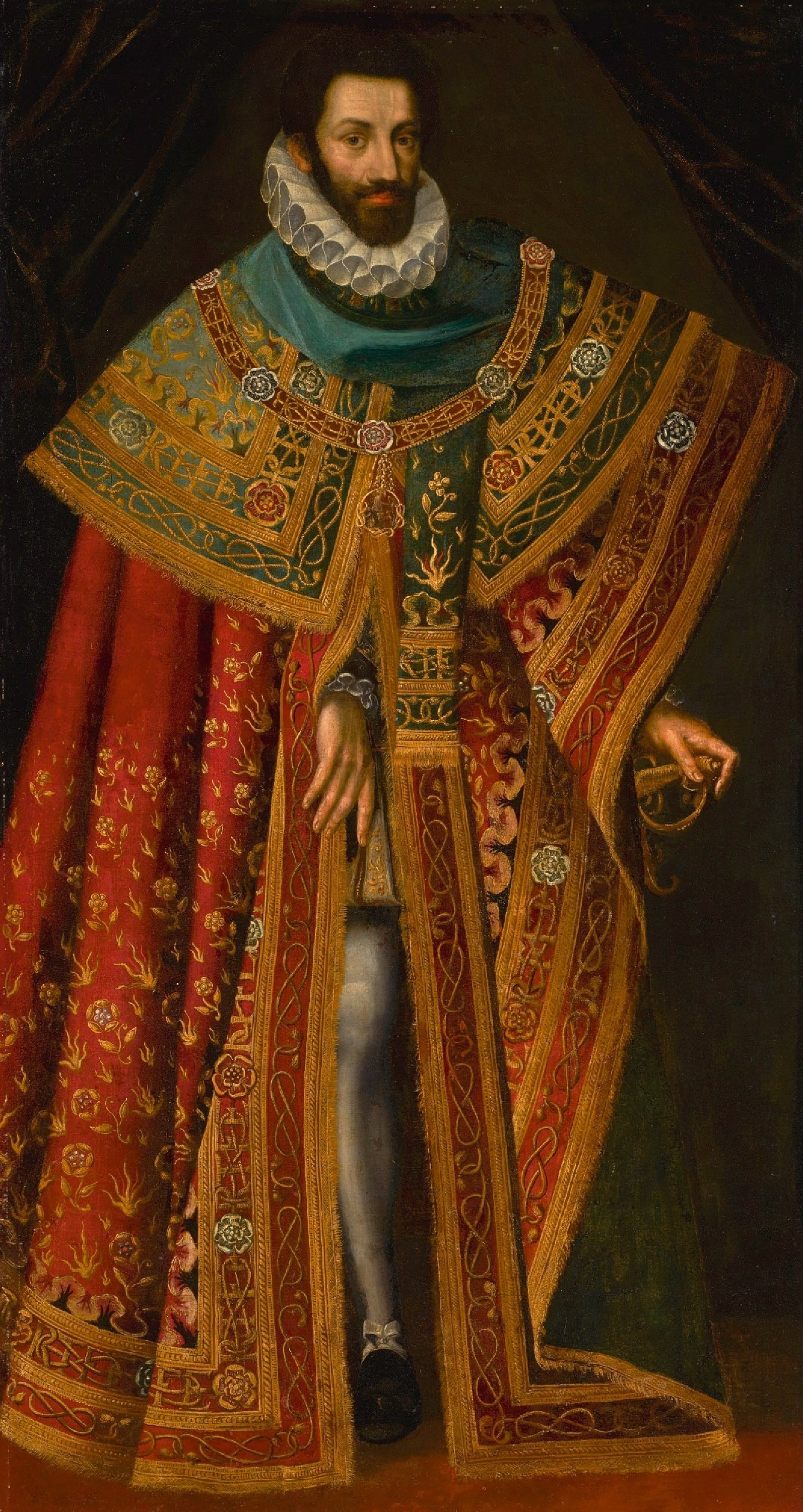 Portrait of Emmanuel Philibert, Duke of Savoy (1528-1580), full length, wearing the robe of the Supreme Order of the Most Holy Annunciation